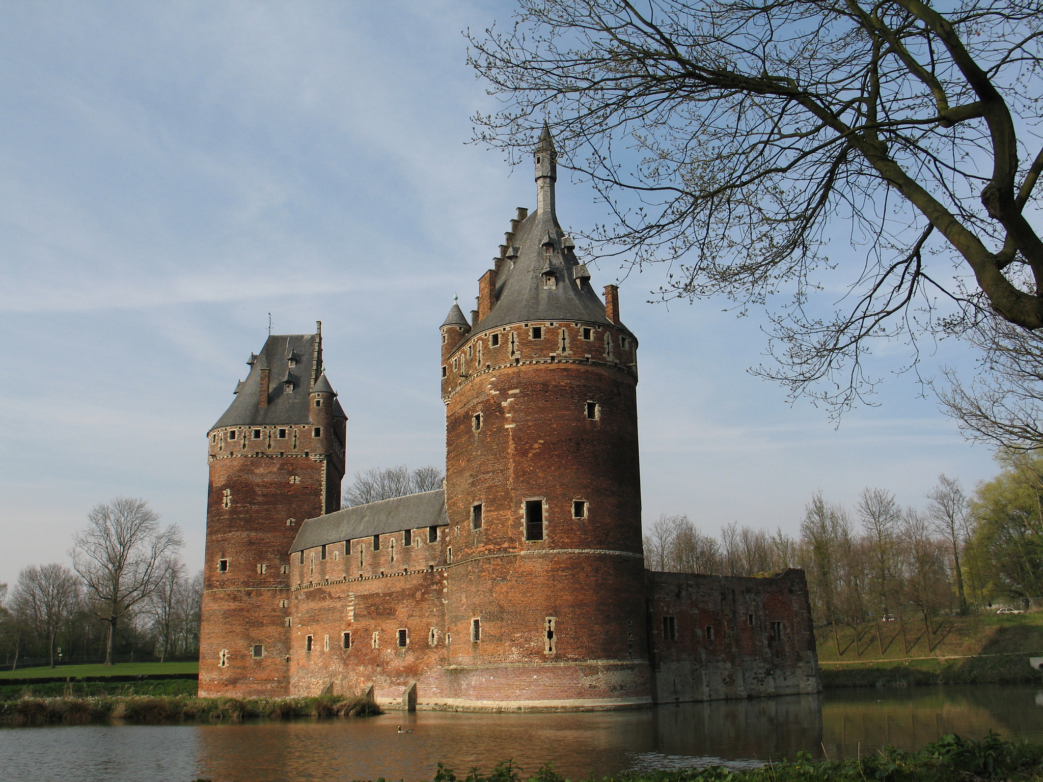 Beersel castle